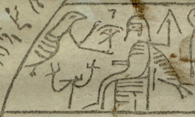 Figure 7 of the Hypocephalus of Sheshonq.